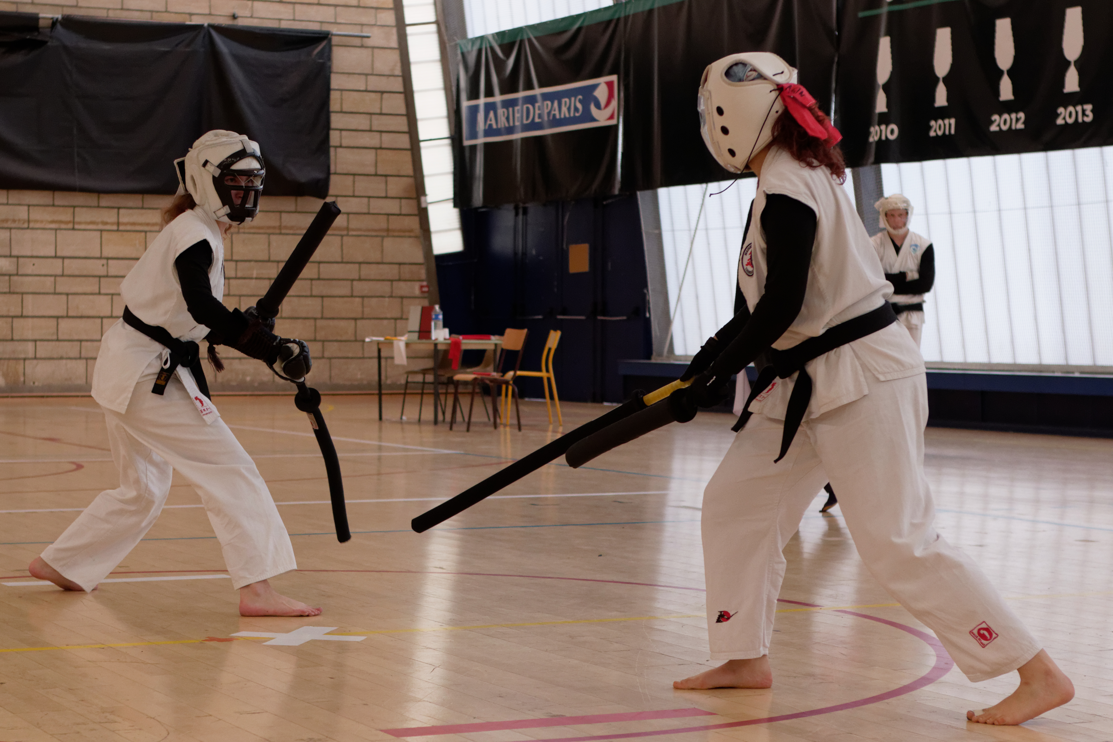 French Chanbara Championship, 12 April 2015.